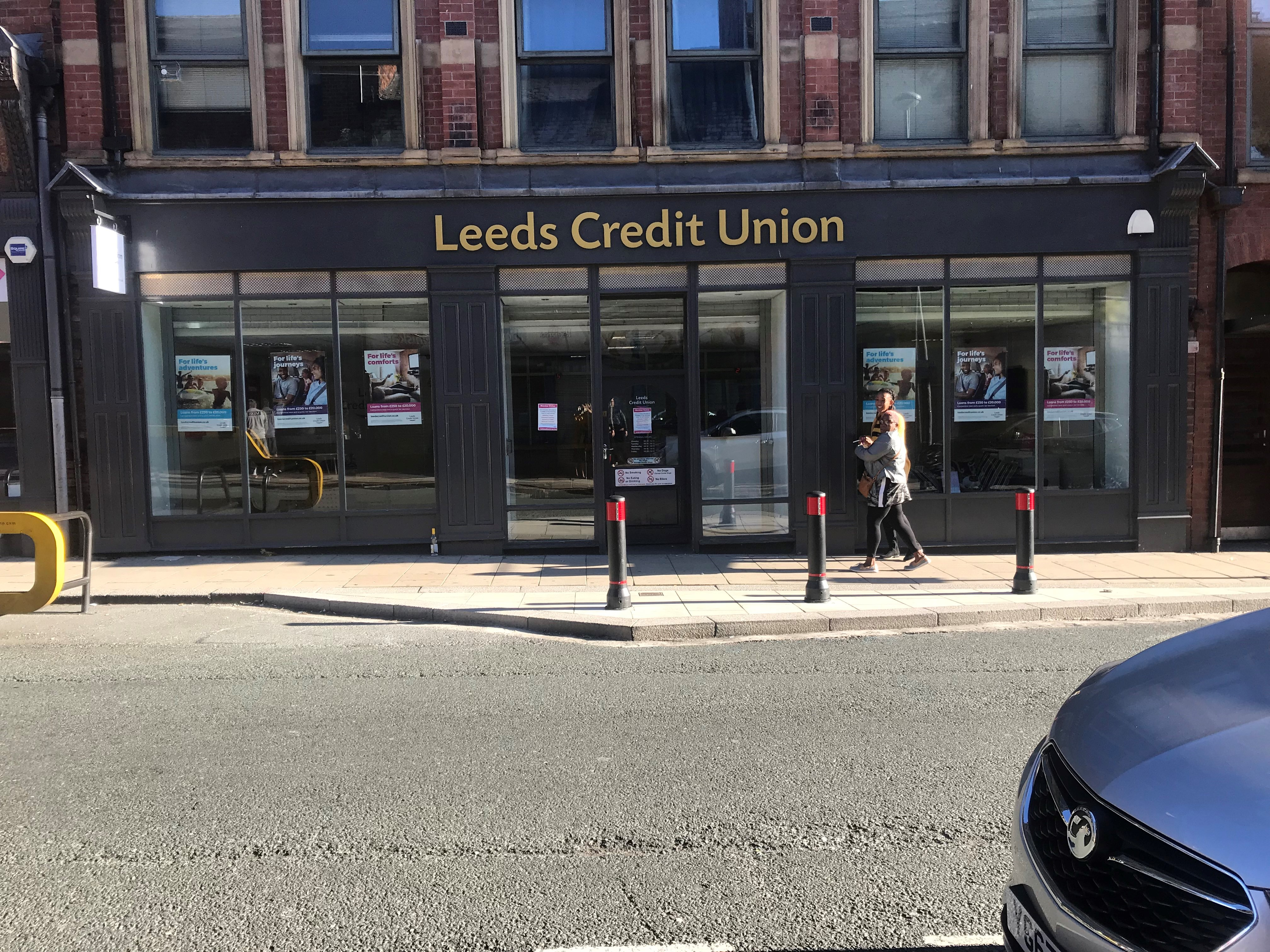 Leeds City Credit Union - flagship branch in Leeds City Centre